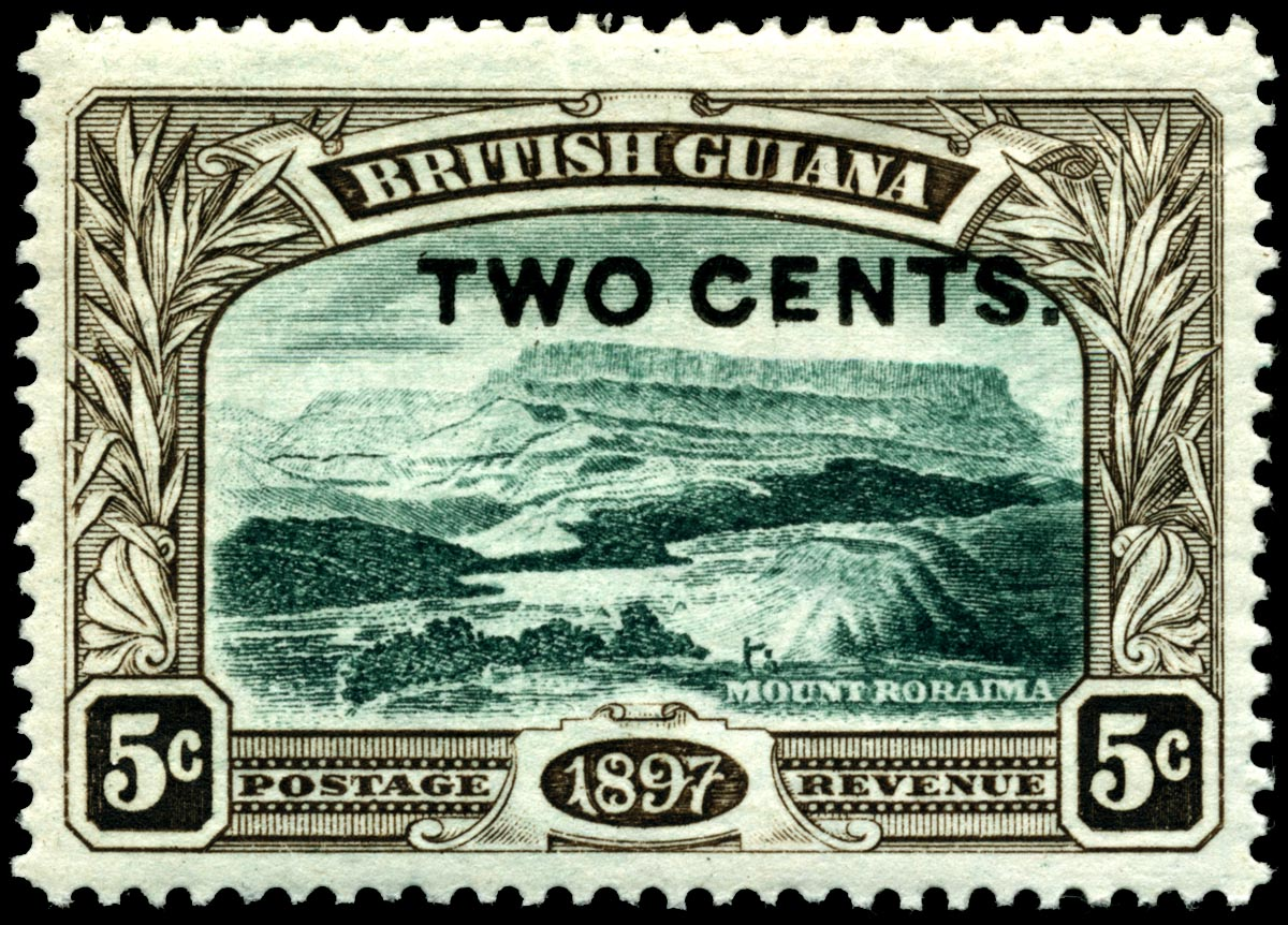 British Guiana 2c overprint stamp of 1899